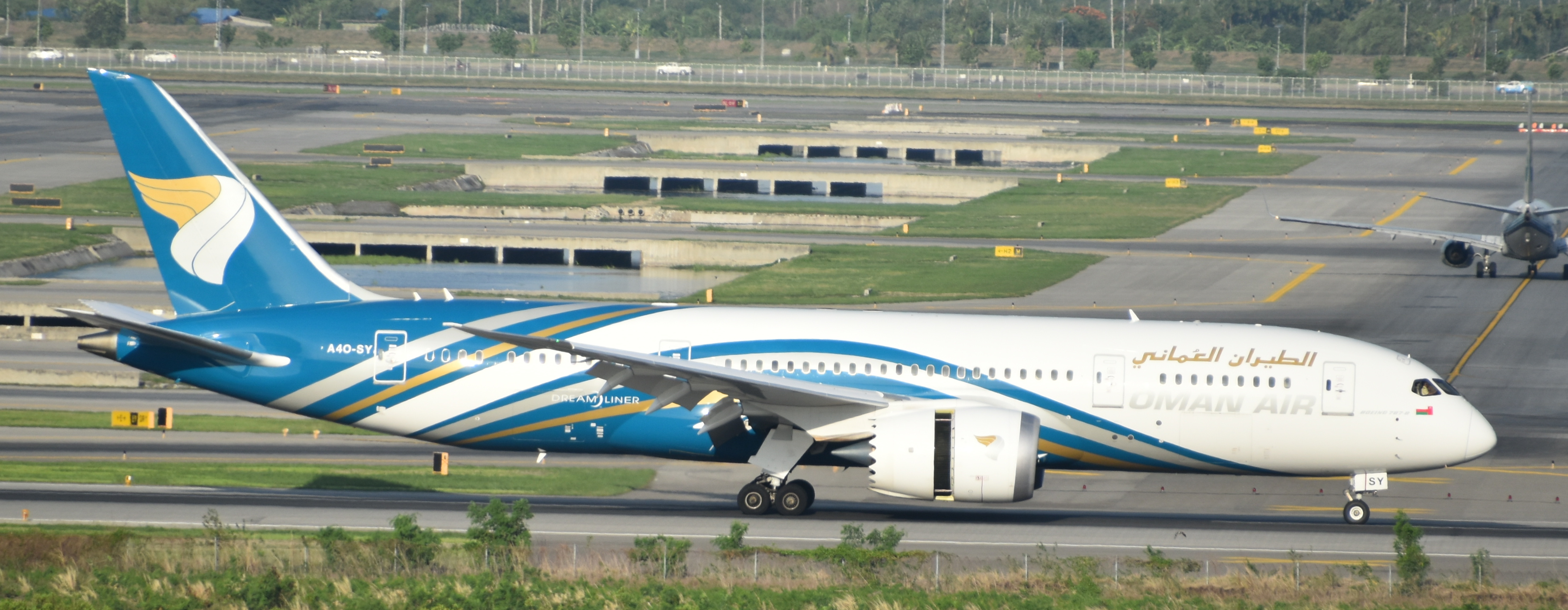 Boeing 787/8 of Oman Air arriving rwy. 19R at Bangkok-BKK,Thailand,08/06/16.